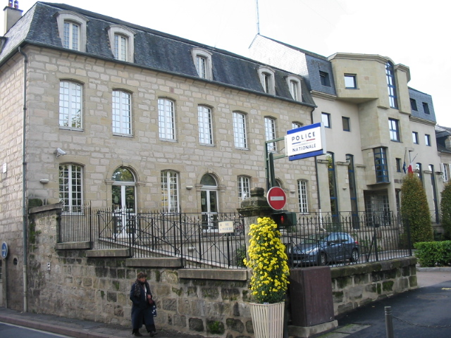 Police station of Brive-la-Gaillarde (South-Western France)